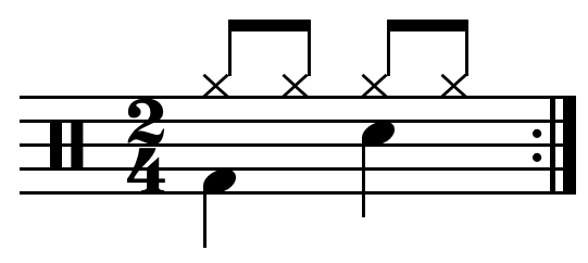 Simple duple drum pattern: divides two beats into two.